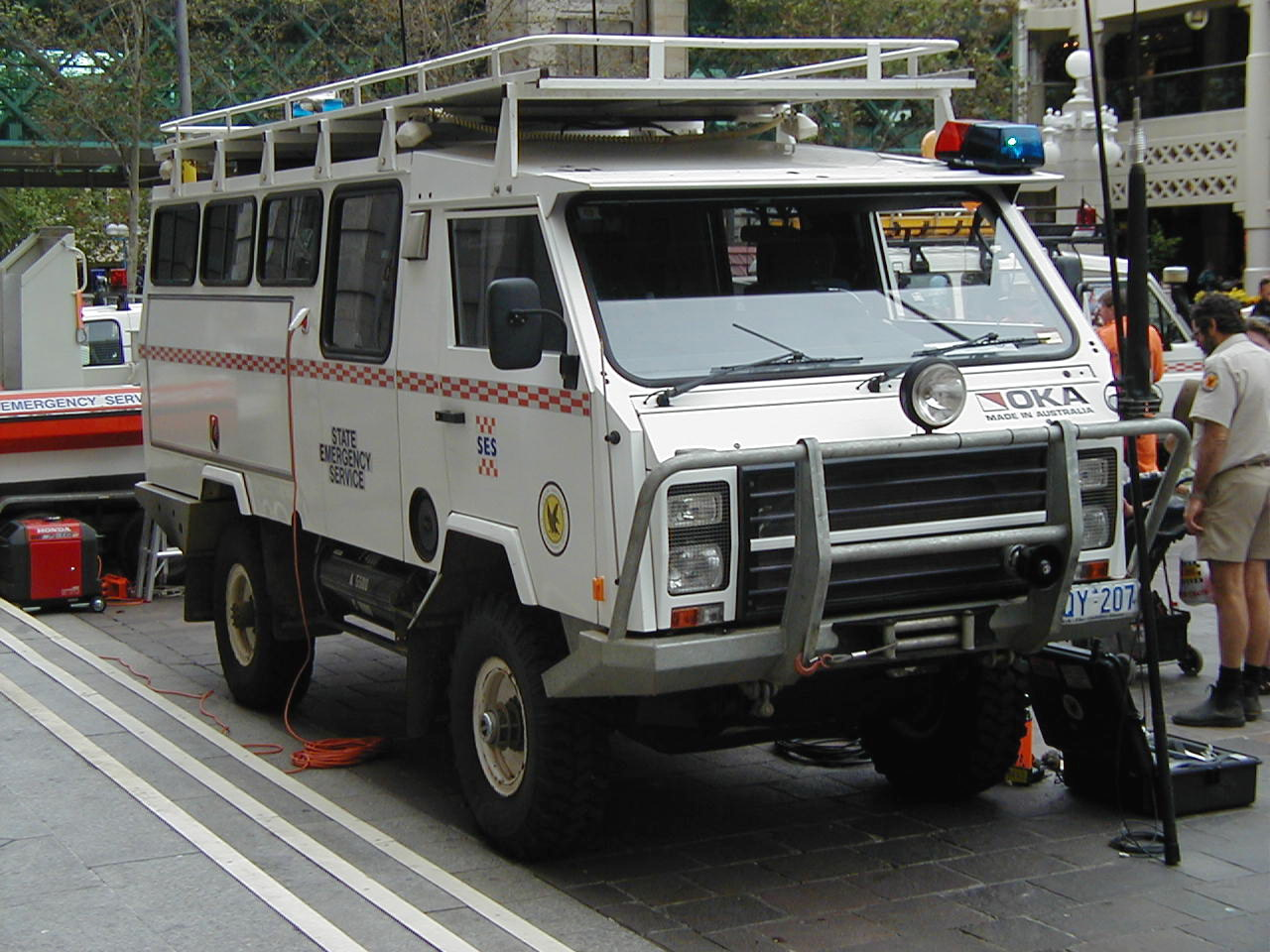 State Emergency Service of Western Australia OKA 4WD vehicle.